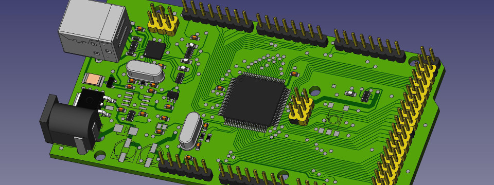 A Freecad screenshot: "Arduino (Eagle import)" by marmni.